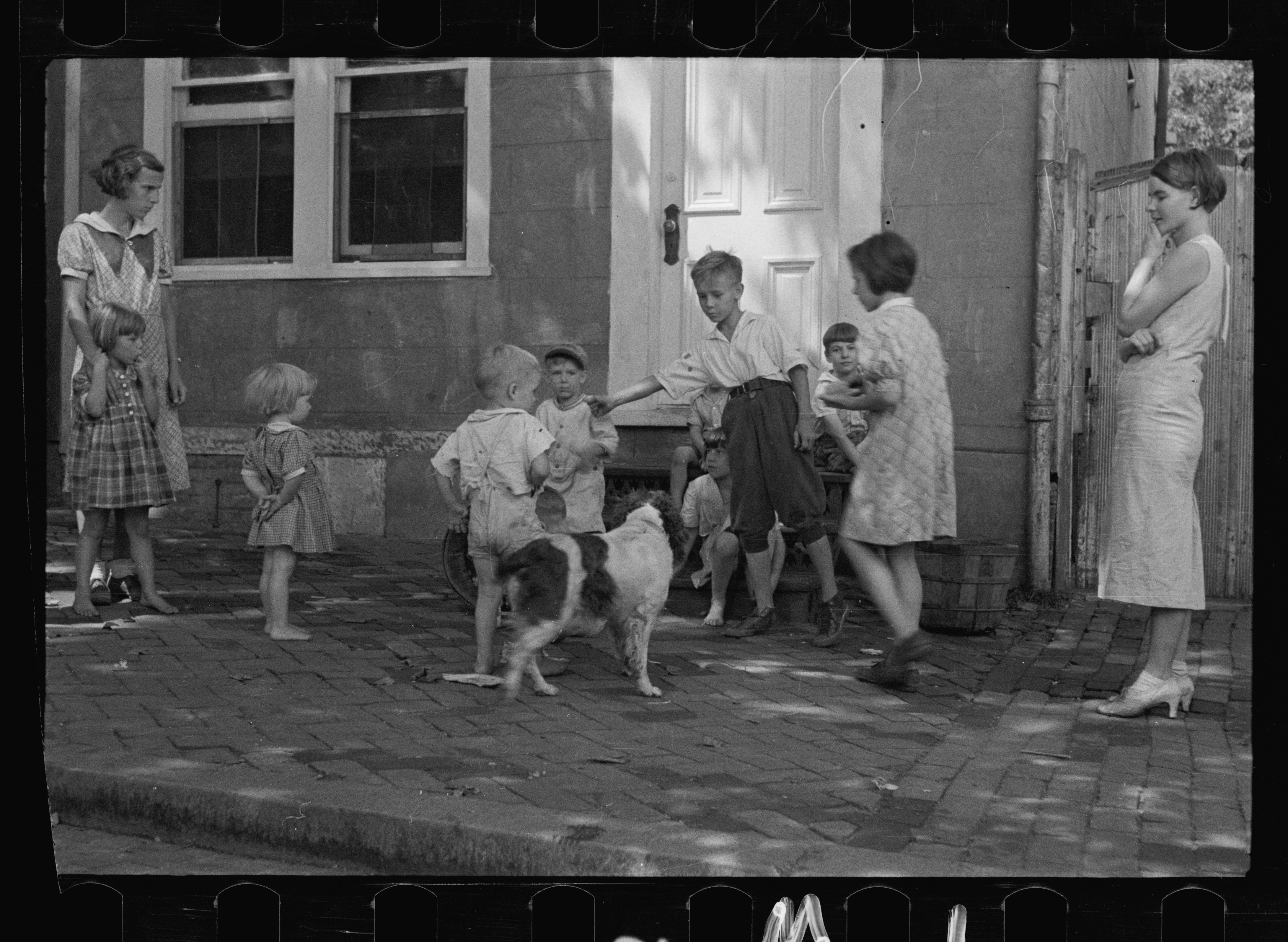 Poor children playing on sidewalk, Georgetown, Washington, D.C.